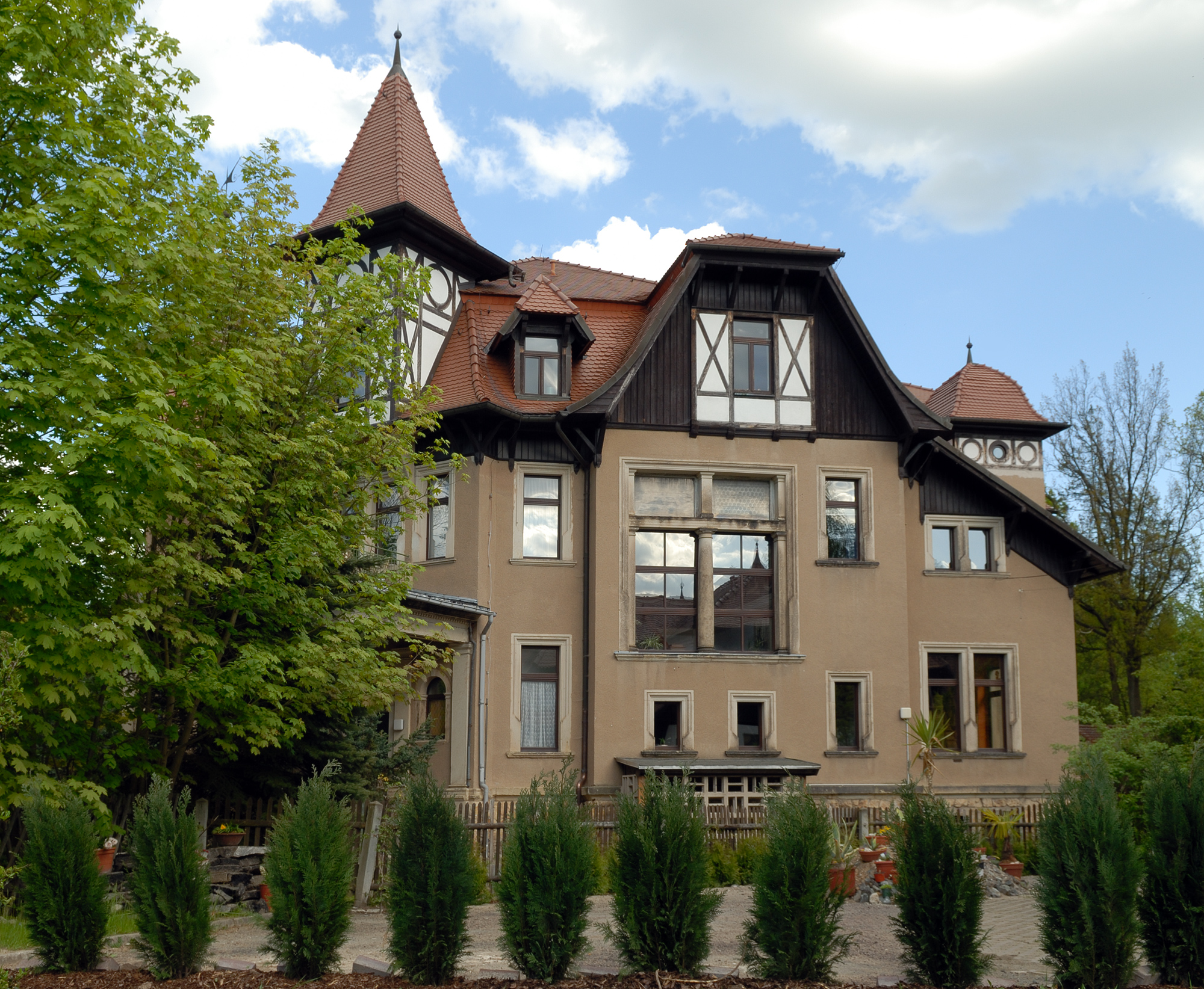 This image shows the youth center "UFO", the former villa "Immenhof", in Flöha, Germany.